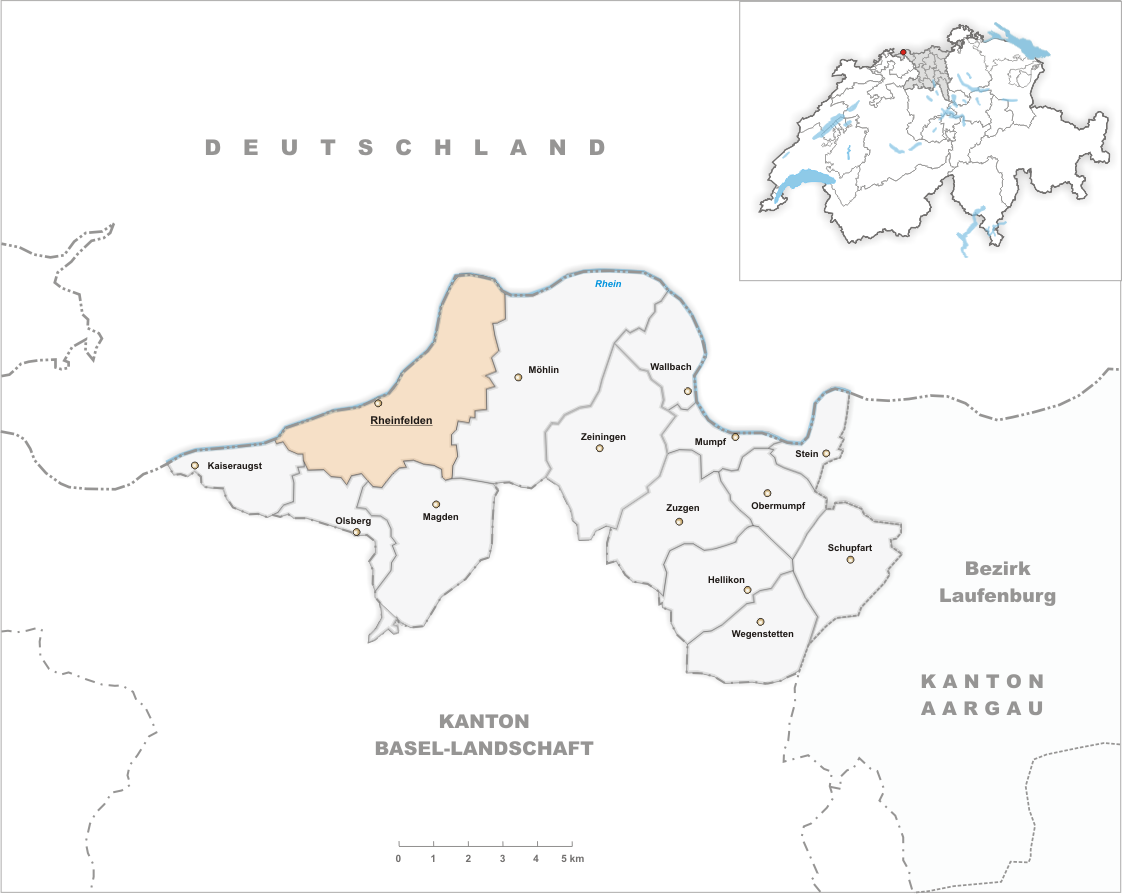 Municipality Rheinfelden